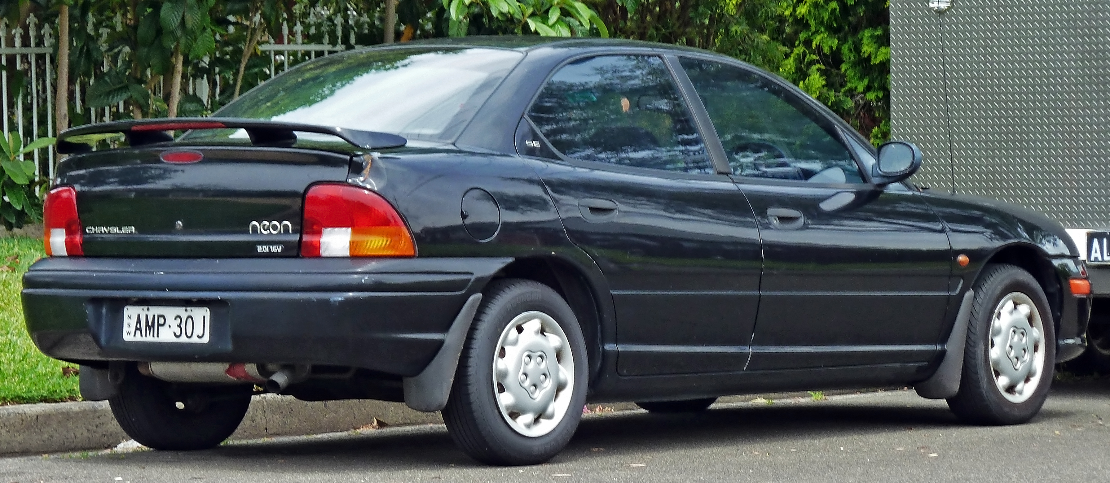 1997 Chrysler Neon SE sedan. Photographed in Sylvania, New South Wales, Australia.